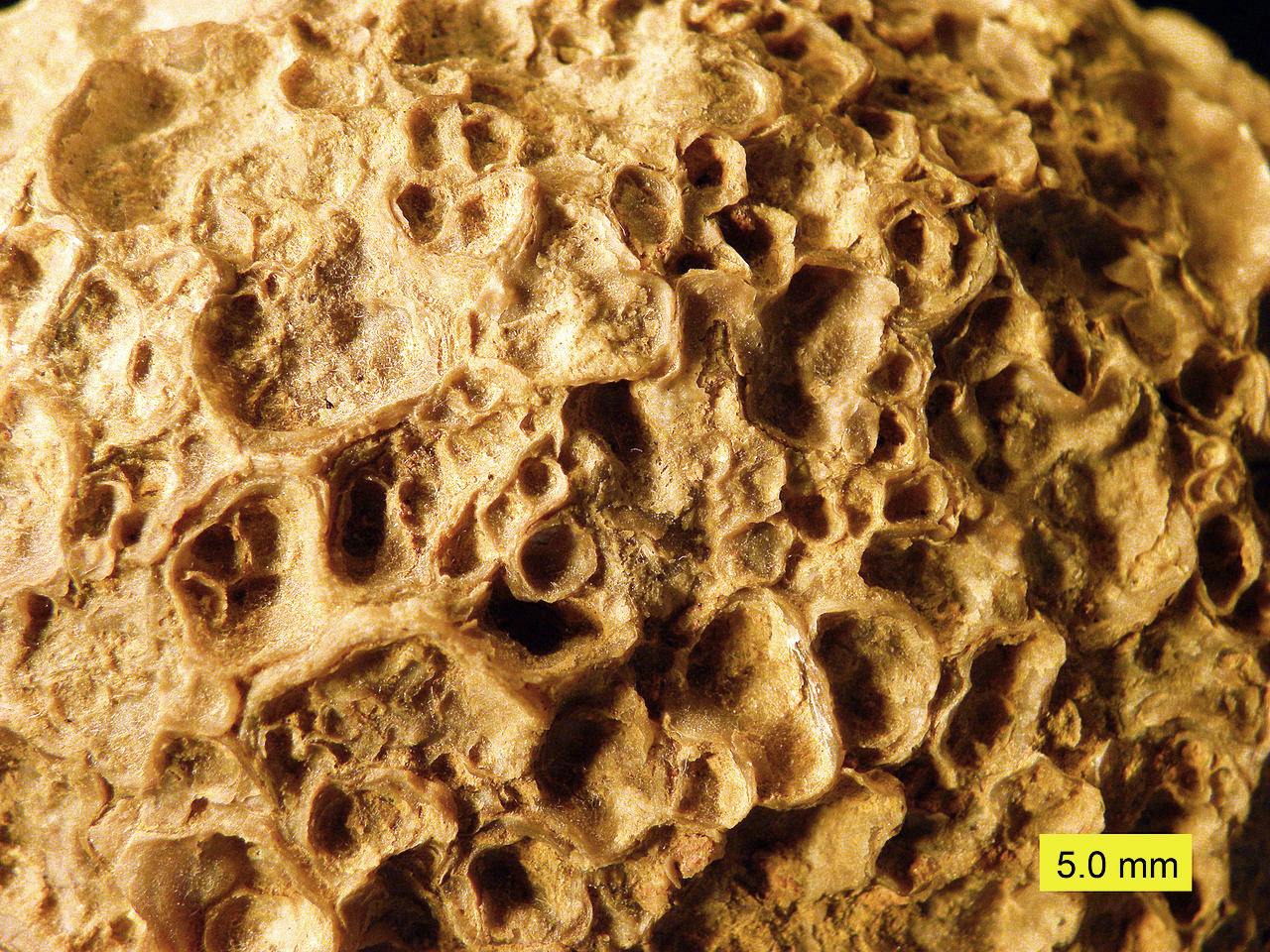 Liostrea strigilecula making up an ostreolith ("oyster ball"); Carmel Formation (Jurassic) of southwestern Utah, USA.